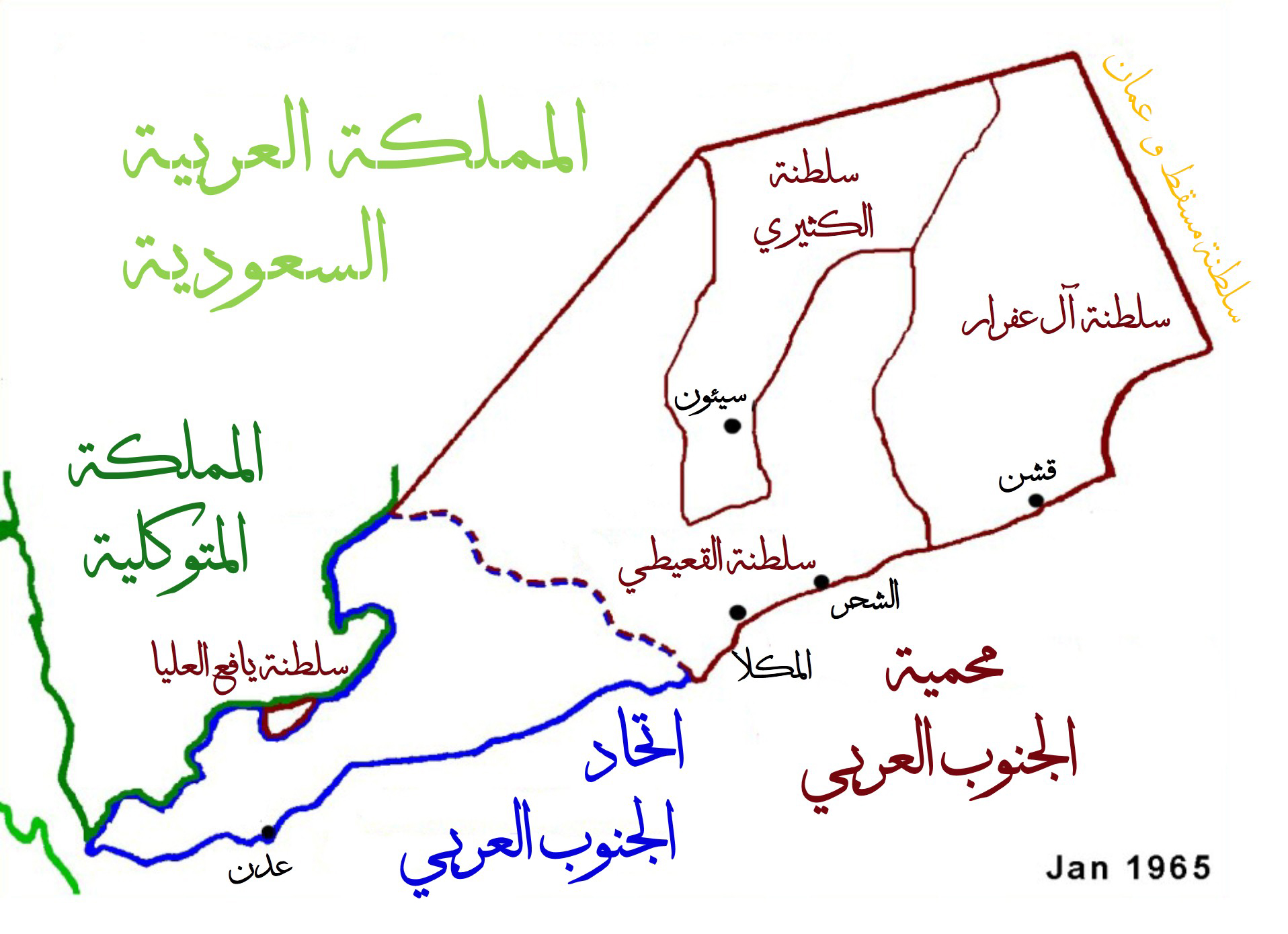 Map of Protectorate and Federation of South Arabia